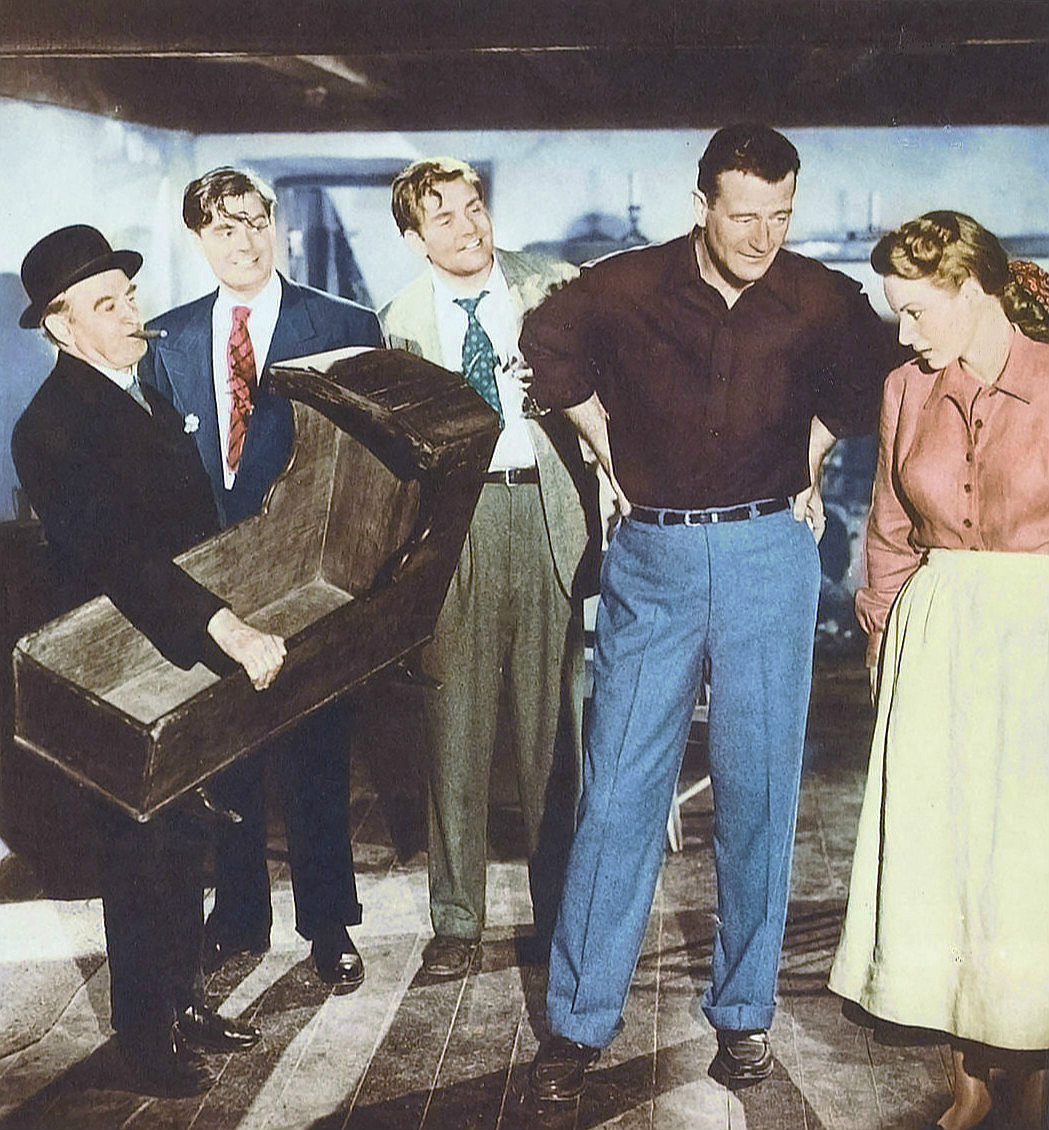 Photo from The Quiet Man (1952). Pictured are John Wayne and Maureen O’Hara.